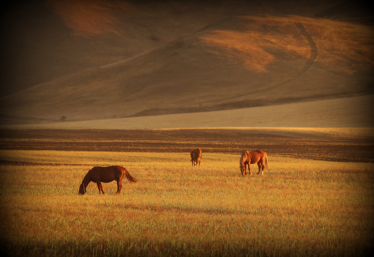 Окрестности села Булык. Джидинский район. Бурятия